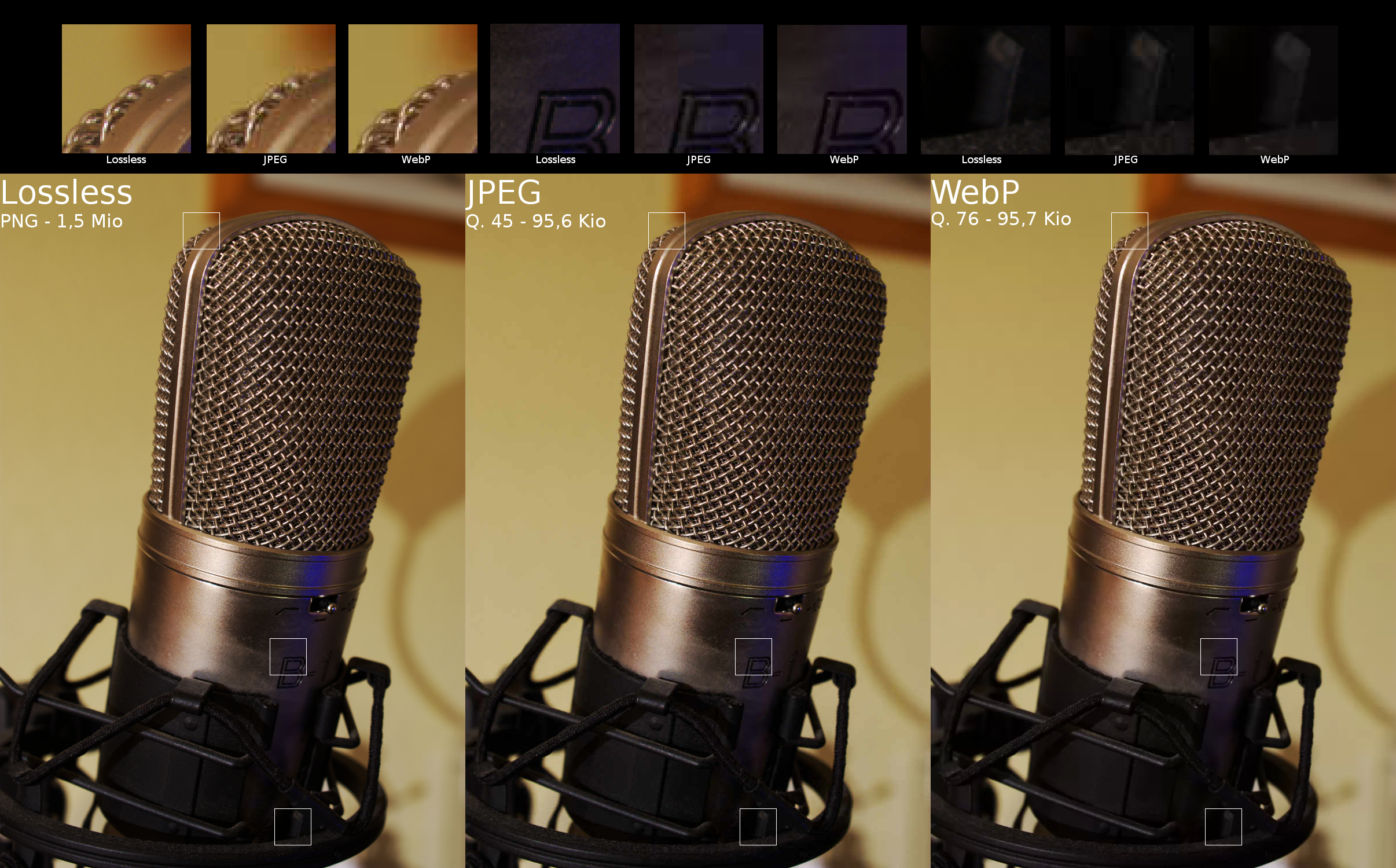 Lossless, JPEG and WebP compression comparative